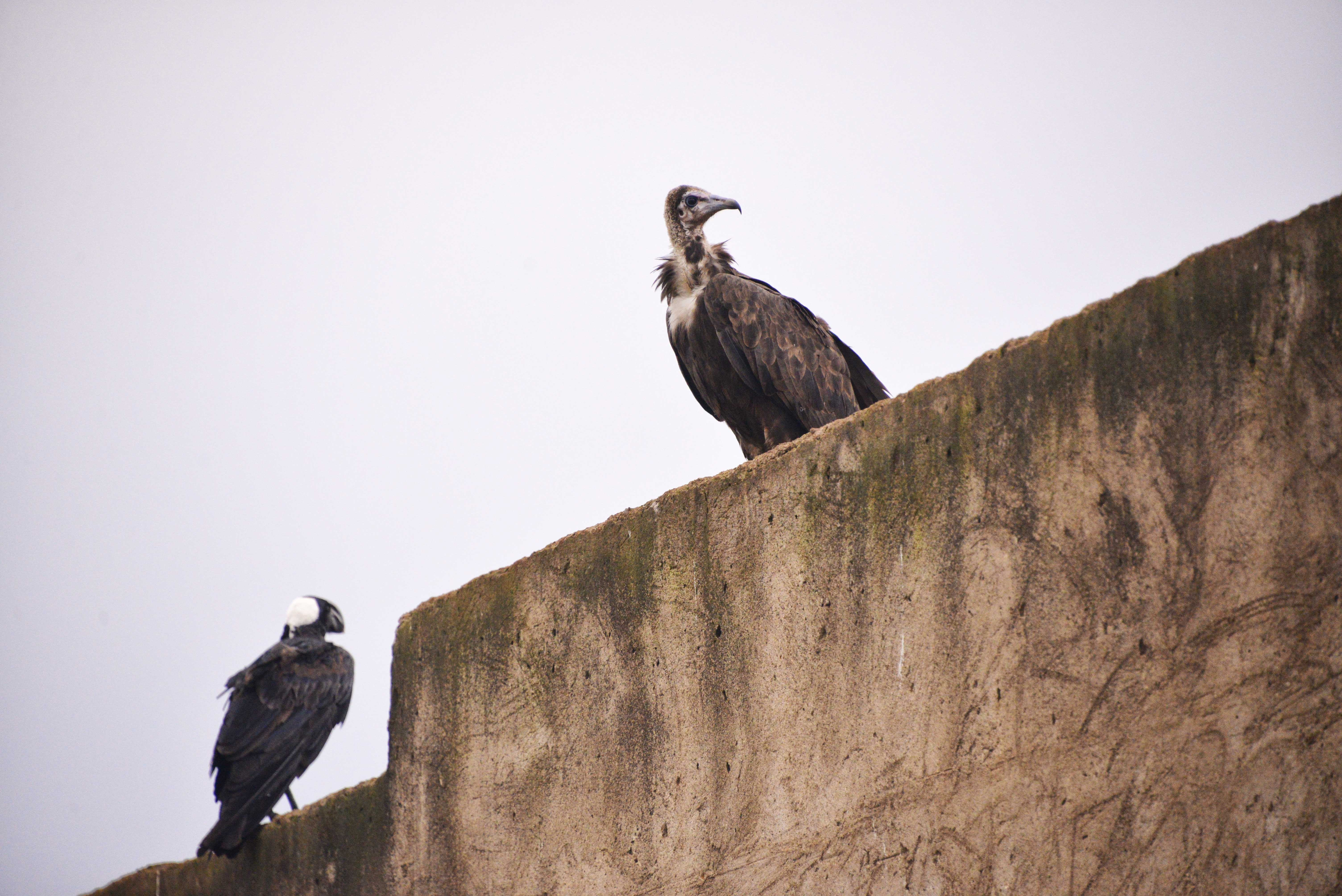 Corvus crassirostris (left) and Necrosyrtes monachus (right), Jimma, Ethiopia